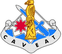 172nd Infantry Brigade Distinctive Unit Insignia